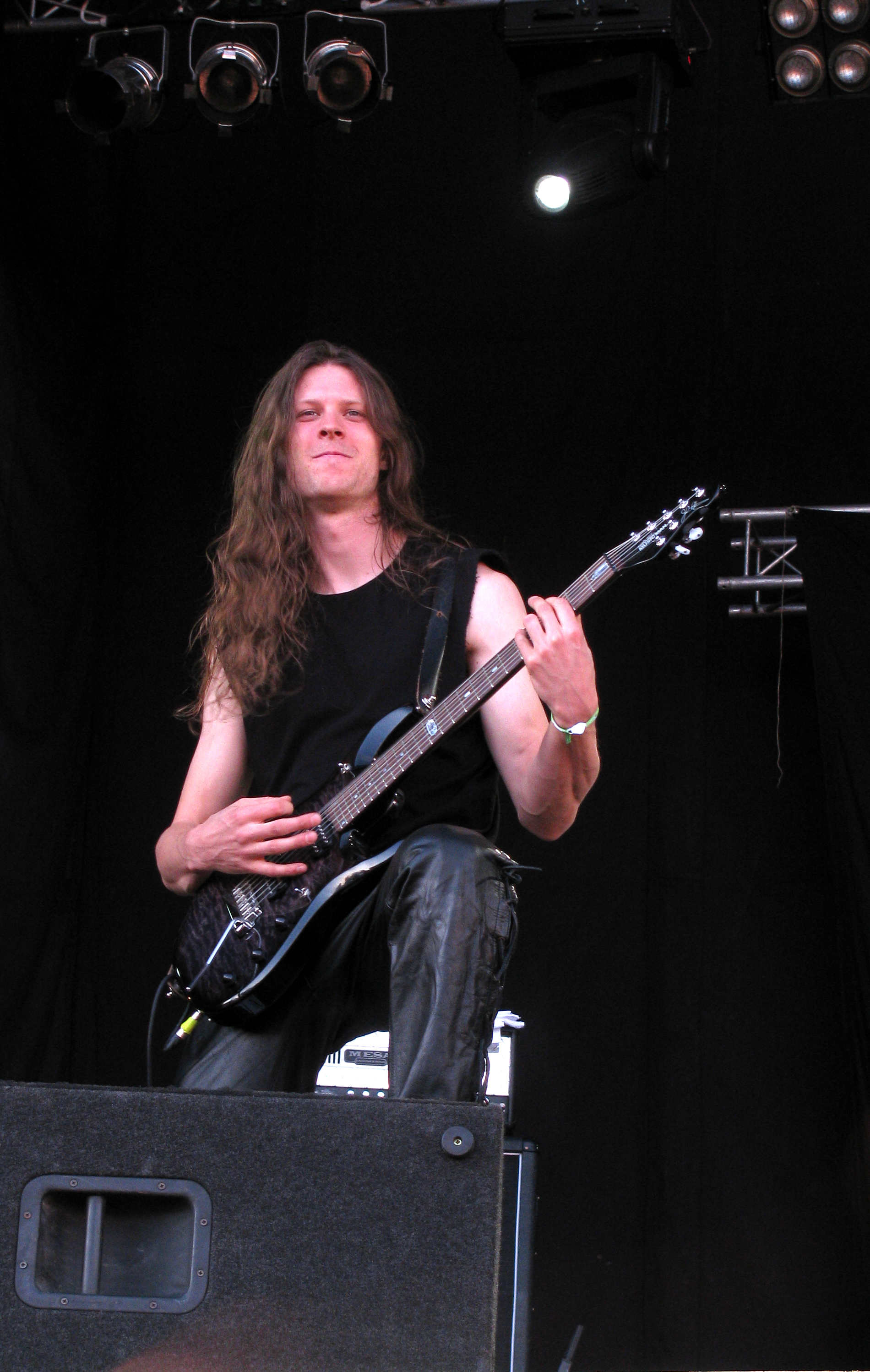 Sirenia playing at Global East Rock Festival 2010